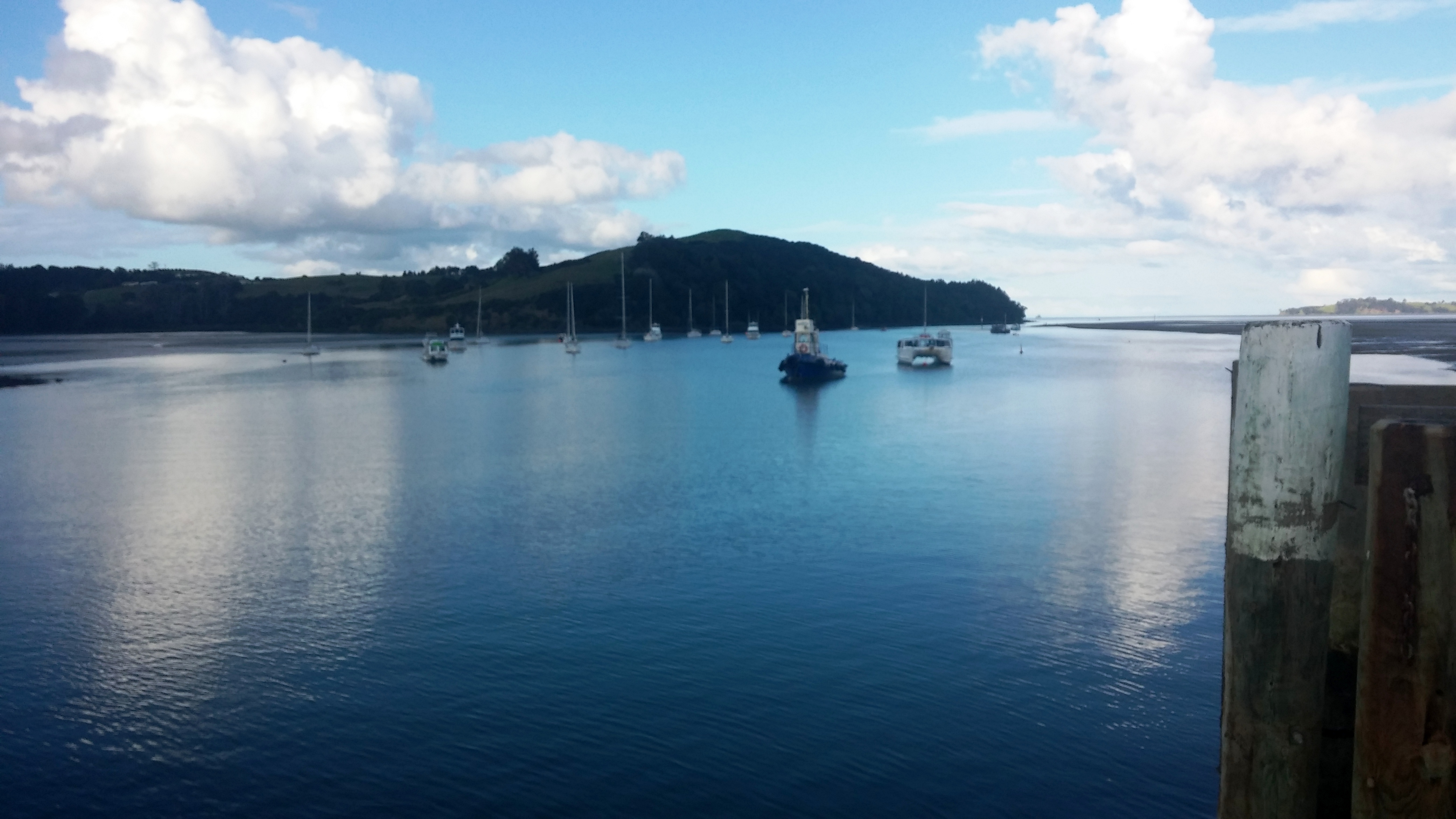 View of Kawau Bay from Sandspit, Auckland, New Zealand